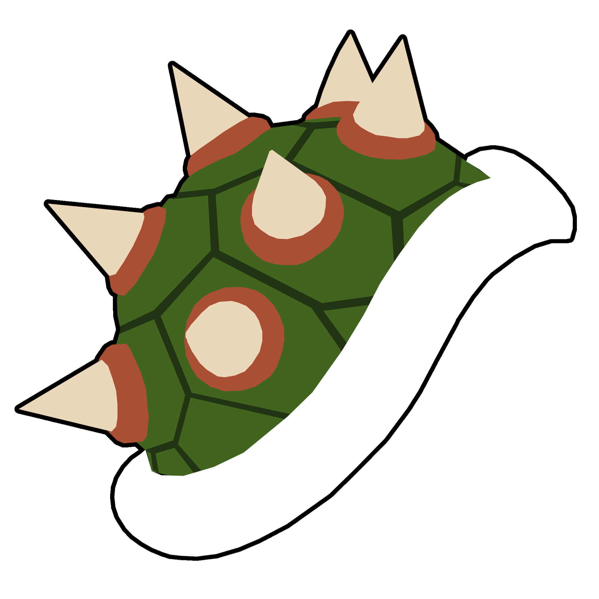 A sell similar to Bowser's one.